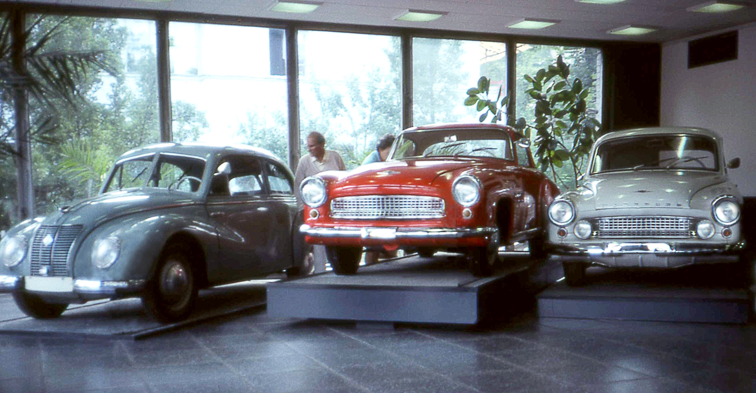 The interior of the rather spartan Wartburg Automobile Pavilion in Eisenach, the home of the famous marque. One the left a two-stroke IFA F9, with two Wartburgs to its right. There were no books leaflets or postcards for sale here. I think the red car is a Wartburg 313/1 Sport-Coupe. This exhibition hall was established in October 1967. In 1992, a new organisation, Automobilbau Museum Eisenach e.V.was founded. The exterior looked like this, but without the graffiti Hand held, no flash, Olympus XA camera, slide film.